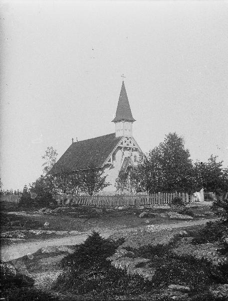 Bygdsiljums kyrka (Bygdsiljum church). Church from northwest.